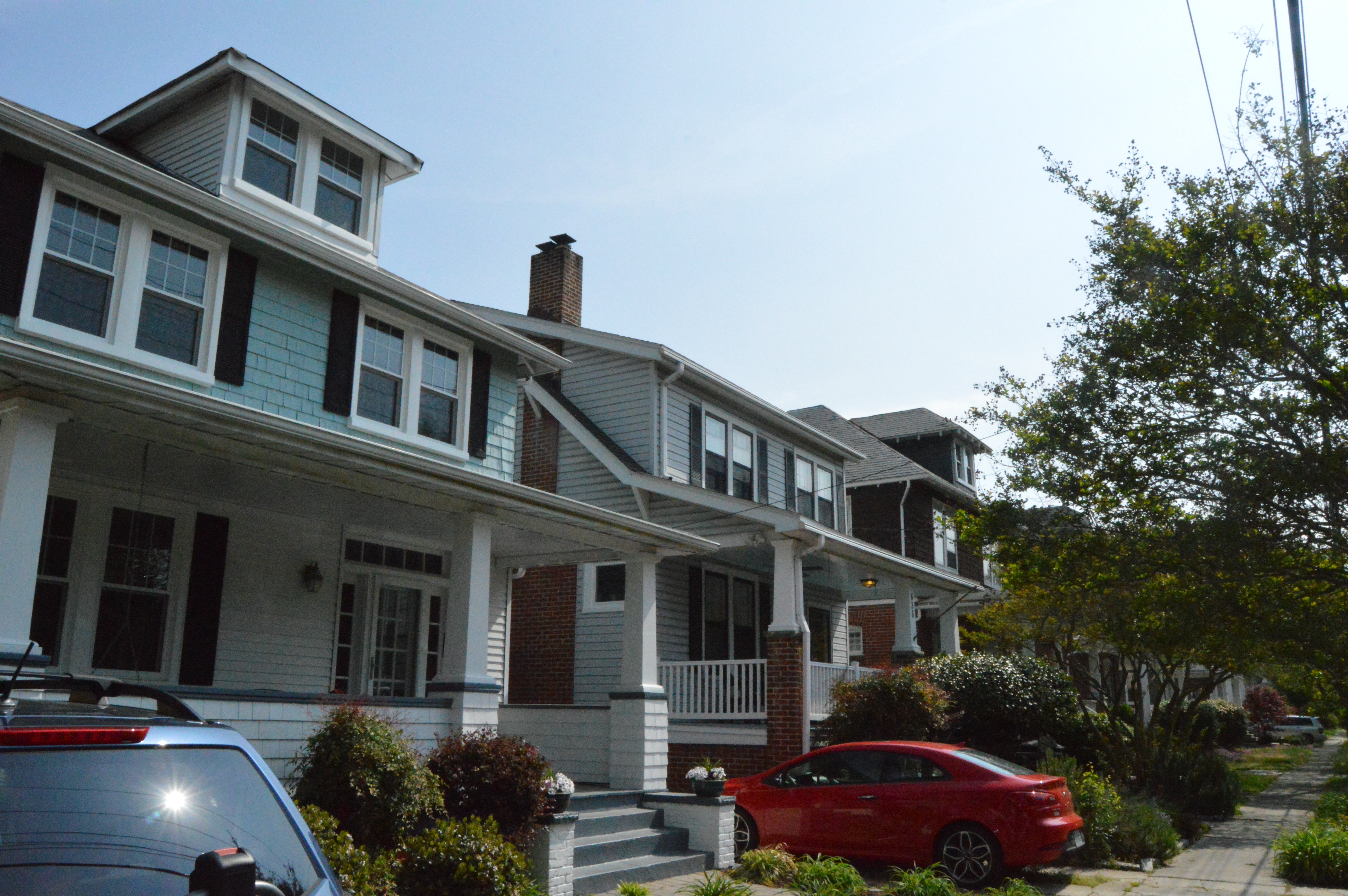 Houses on the northern side of Delaware Avenue east of the Gosnold Avenue intersection in Norfolk, Virginia, United States. This block is part of the Colonial Place Historic District, a historic district that is listed on the National Register of Historic Places.